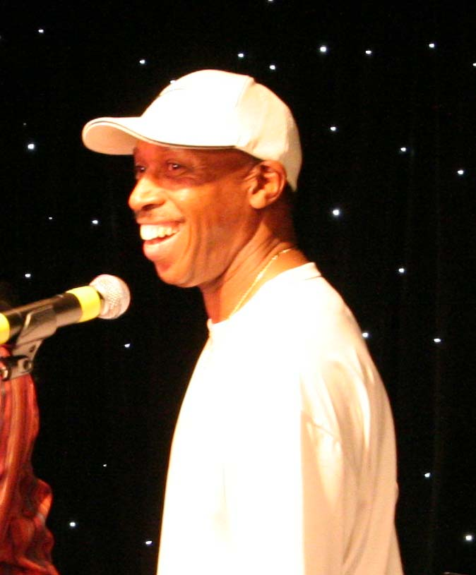 This is a photo of Jeffrey Osborne taken by Hugh Pickens on January 27 , 2008 at a concert on the Holland America ship Westdam.